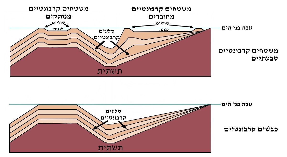 Types of Carbonate platforms